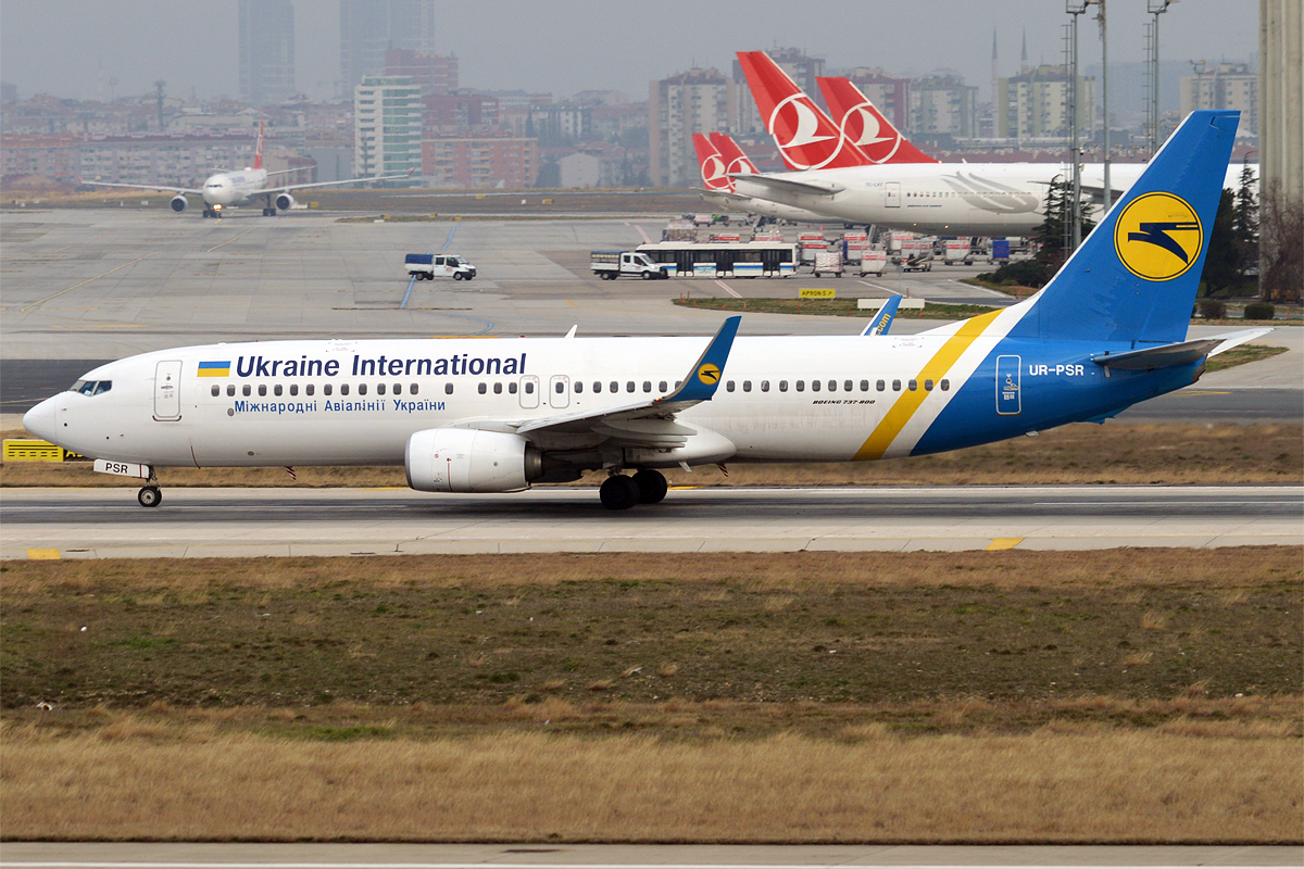 Ukraine International Airlines Boeing 737-800 at Istanbul Atatürk Airport